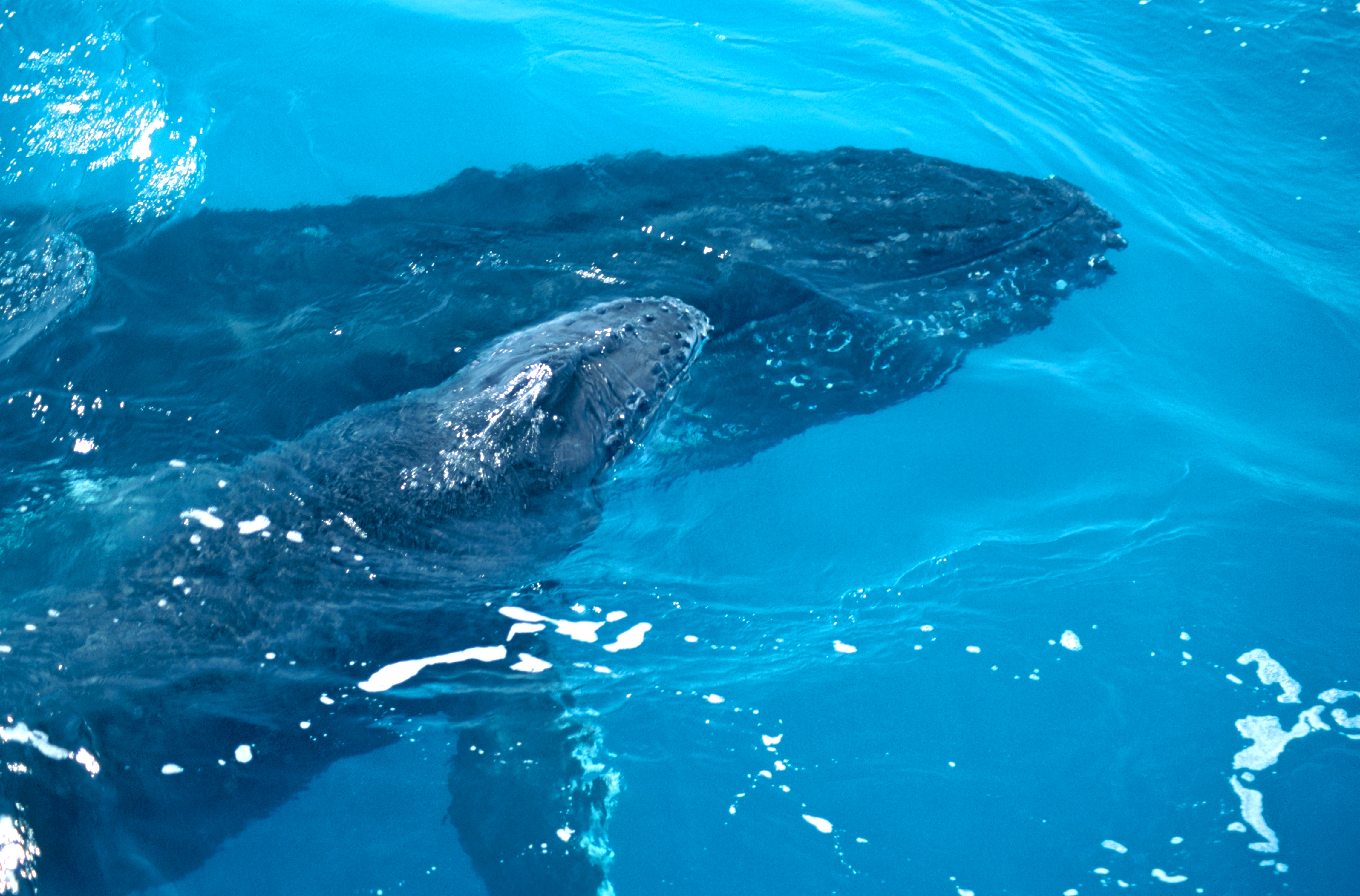 Humpback whale (Megaptera novaeangliae) Calf and Mother at Abrolhos Marine National Park